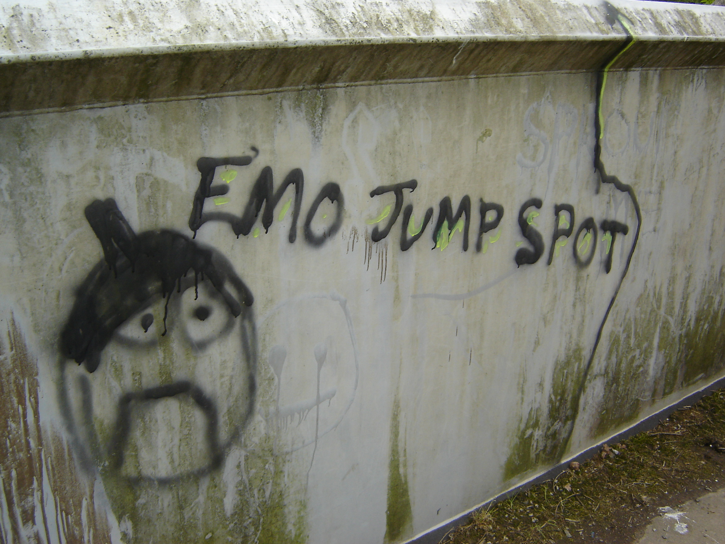 Graffiti on a bridge over the East Coast Main Line railway line with reference to Emo culture.